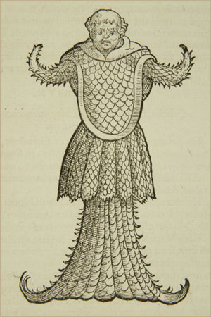 Sea monk from 1575 book by Swiss naturalist Konrad Gesner